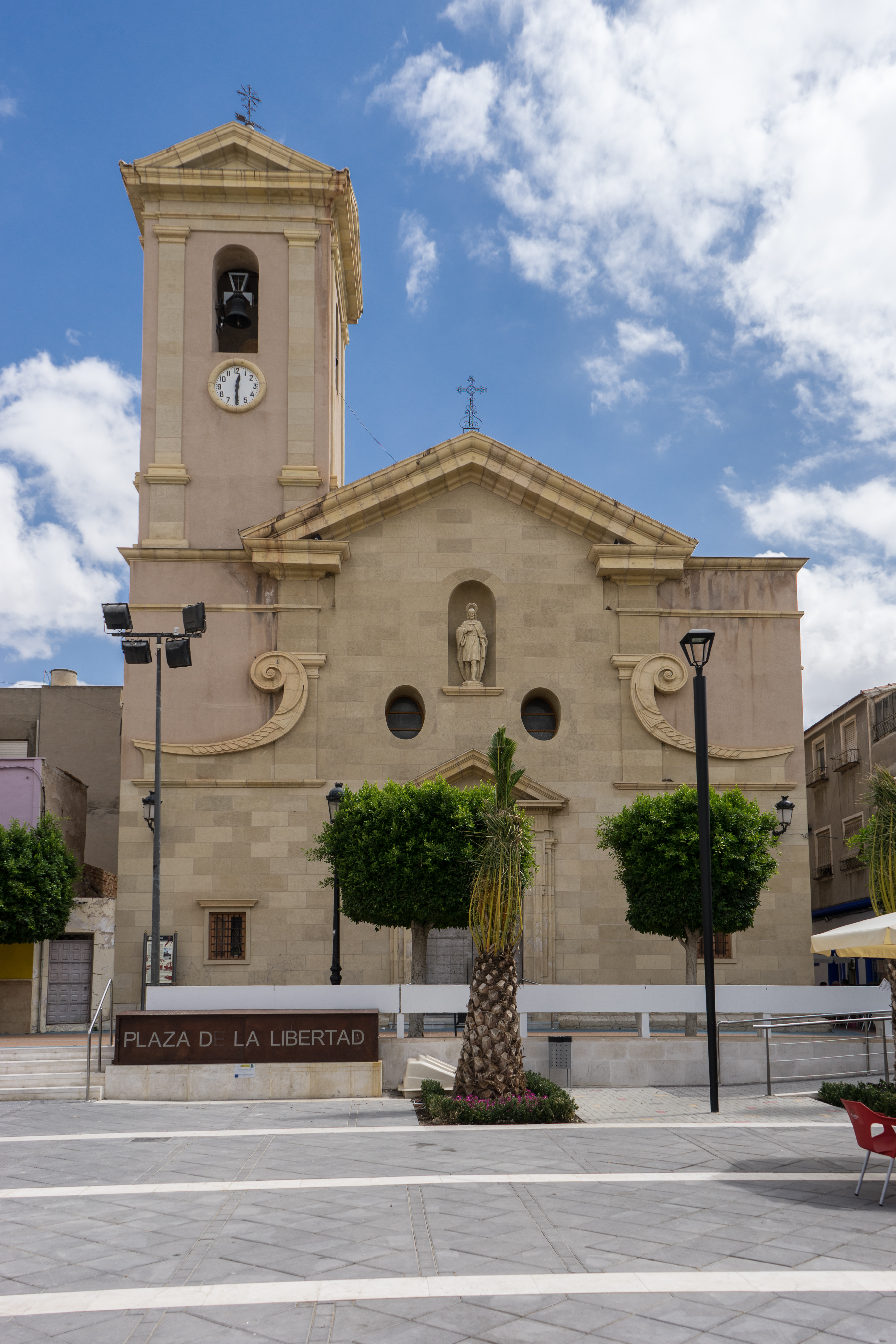 Parish Churh of Saint James in Lorqui